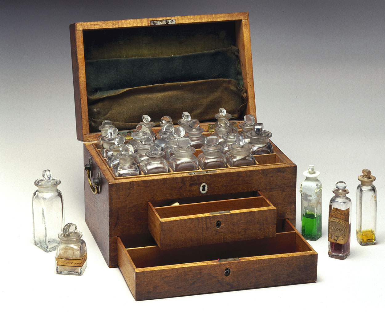 The chest has two keys and contains Faraday's letters and chemical specimen bottles. Michael Faraday (1791-1867) discovered the principles of the electric motor and dynamo. Faraday's great life work was the series 'Experimental Researches on Electricity' published over 40 years in 'Philosophical Transactions', in which he described his many discoveries including electromagnetic induction (1831), the laws of electrolysis (1833) and the rotation of polarised light by magnetism (1845). One of a series of tiles celebrating famous scientists from the Cafe Royal in Edinburgh.